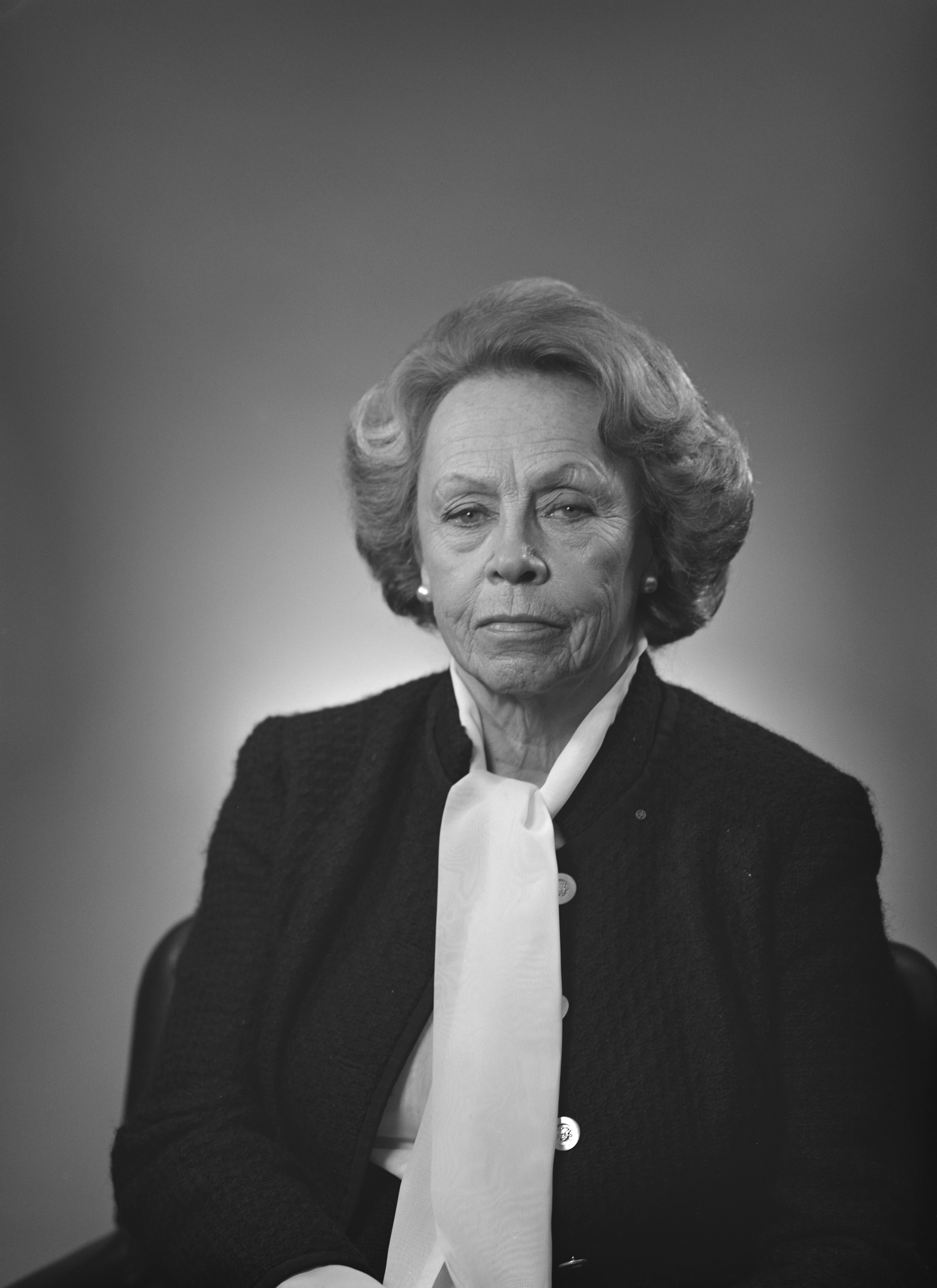 Photograph of the Finnish patron Maire Gullichsen (1907–1990).